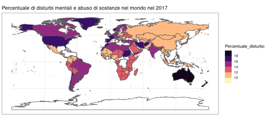 file realizzato con RStudio